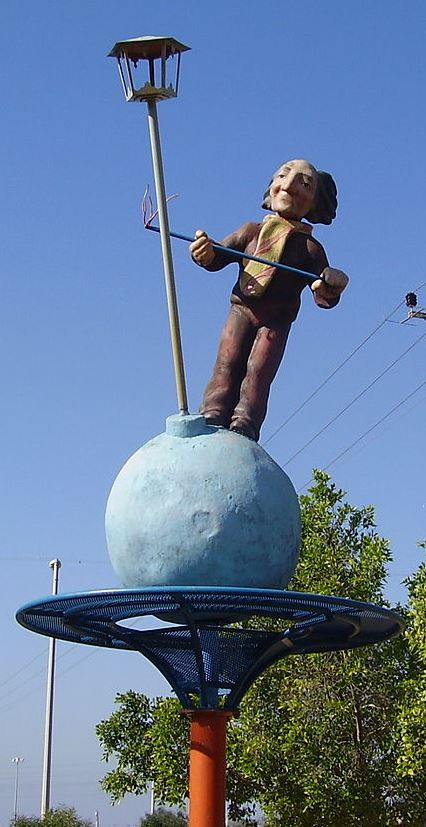 "The Little Prince" garden in Holon